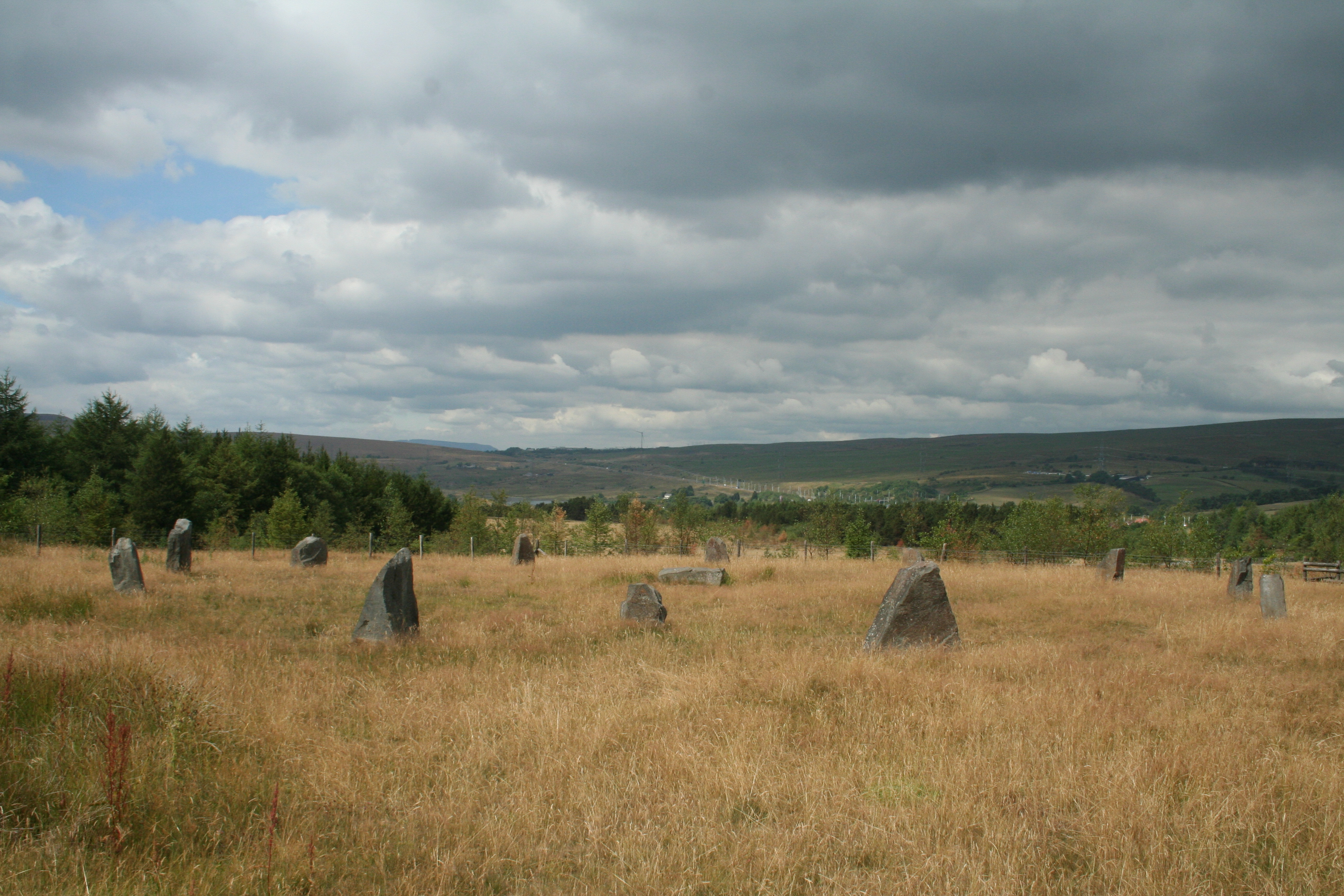 a picture of the Gorsedd Stone circle looking across at the top of the Rhymeny Valley